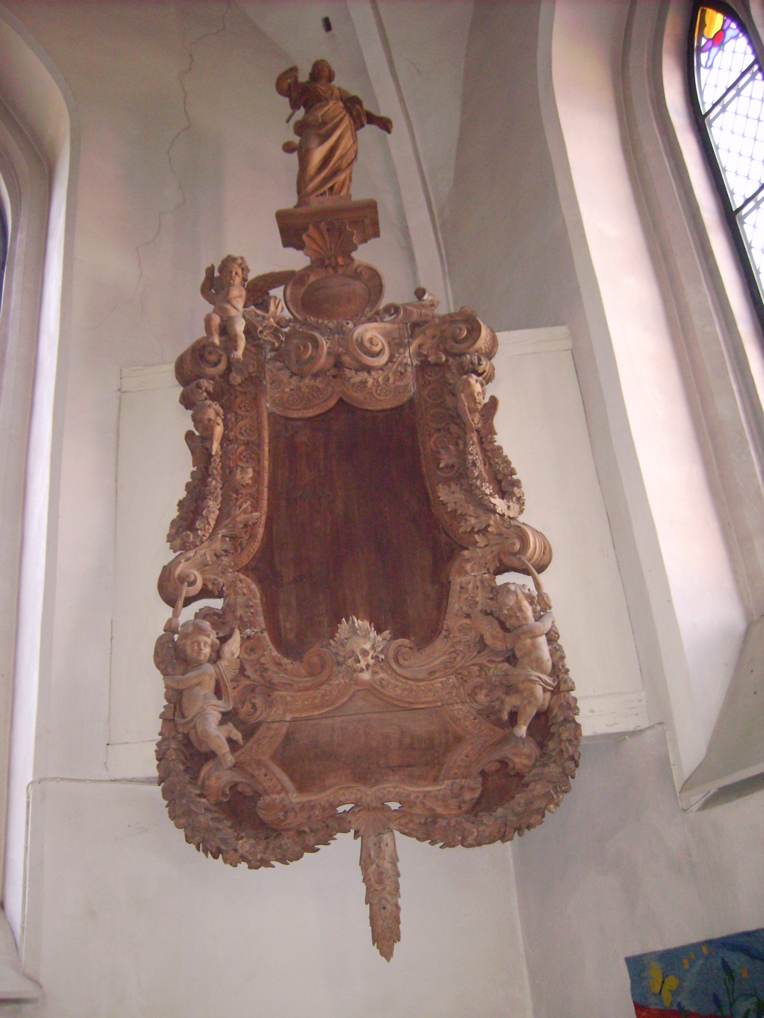 The Middle Age church ”Vårfrukyrkan” in Skänninge, built around 1300 by the German population in the town. Epitaph for Jonas Wahlberg (no text and no painting), constructed by Nils Schenander.